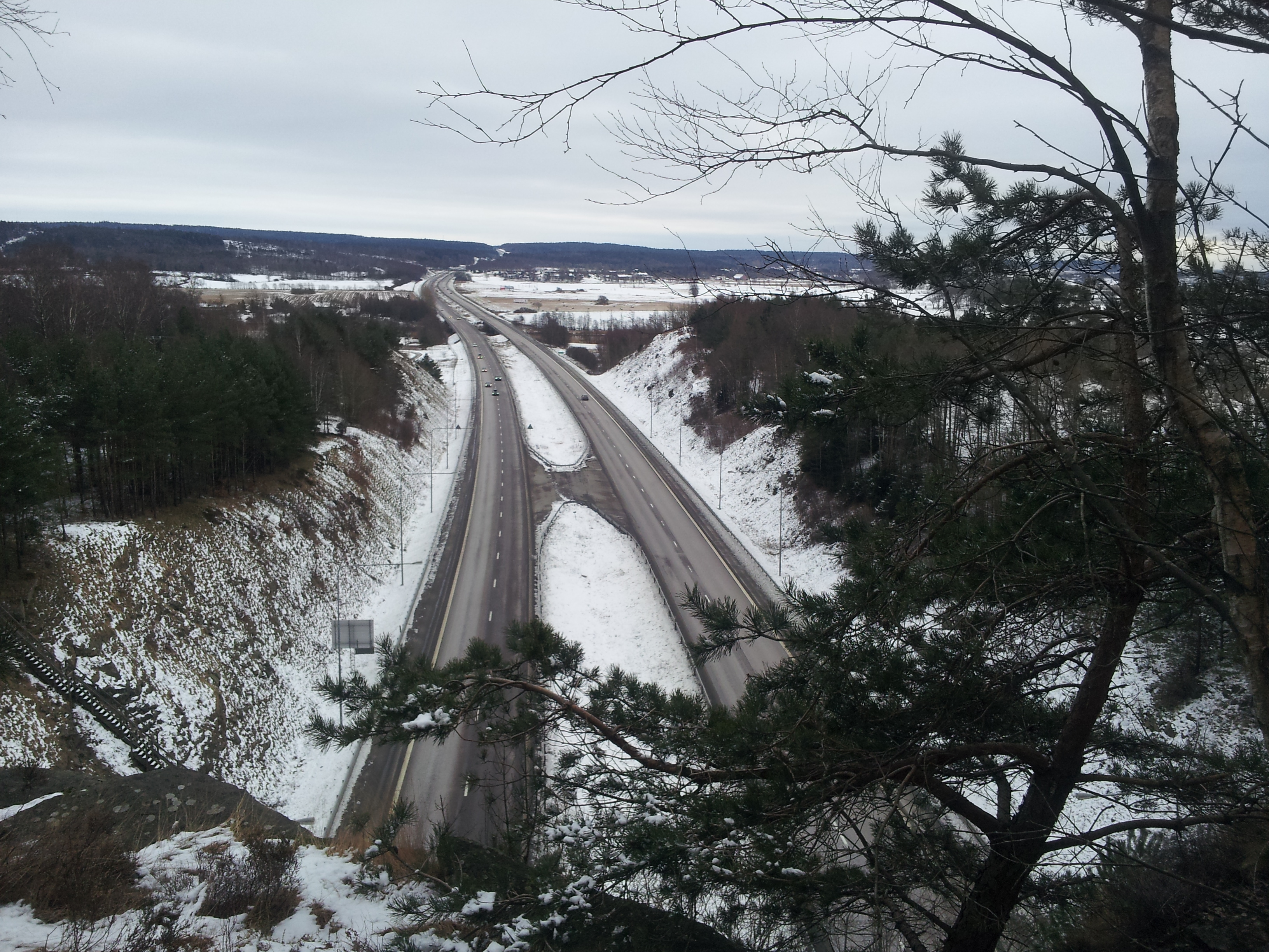 The motorway tunnel Värötunneln north of Varberg, Sweden (road E6/E20). The picture is taken in southbound direction.